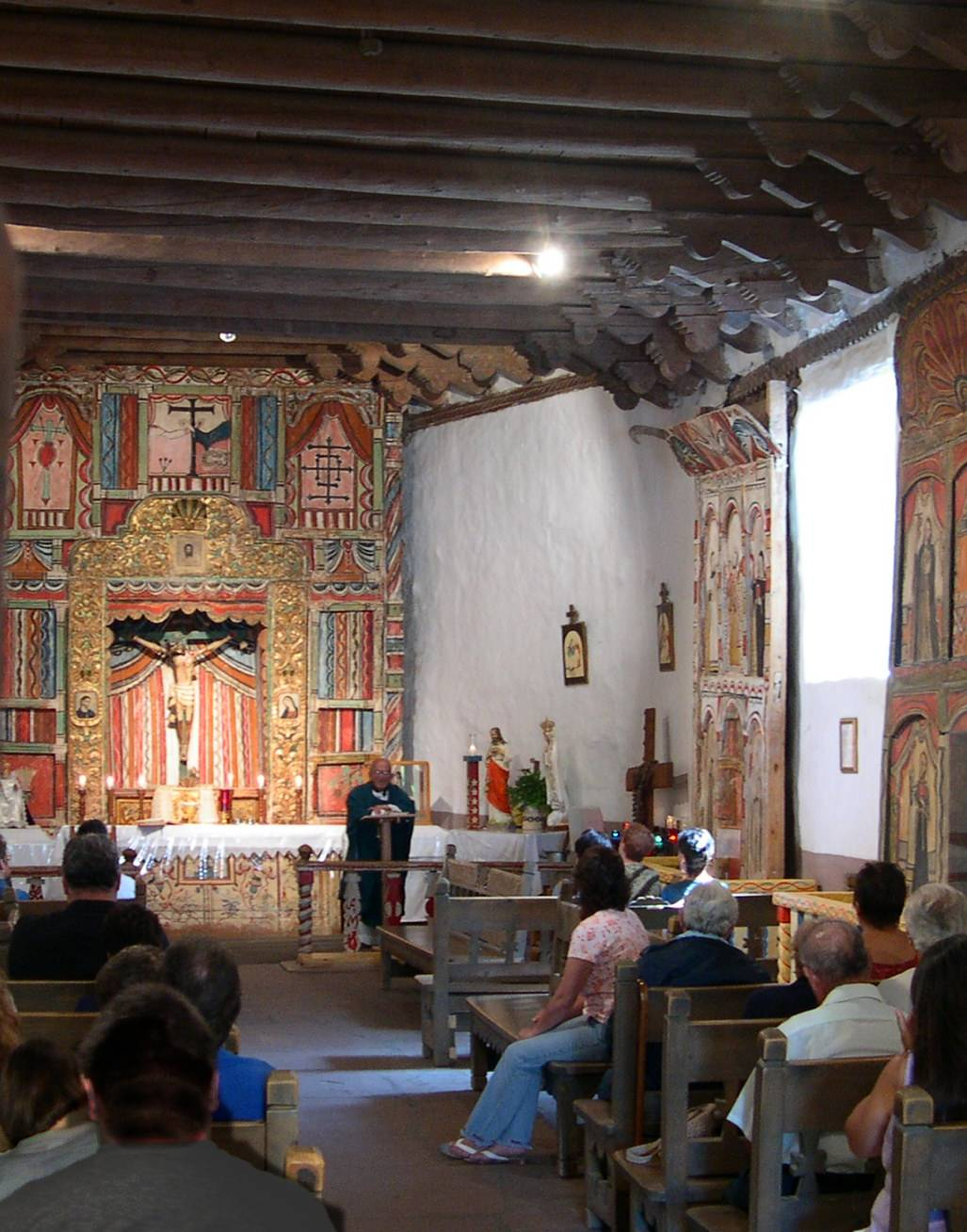 The humble and yet starkly beautiful interior of El Santuario de Chimayo.